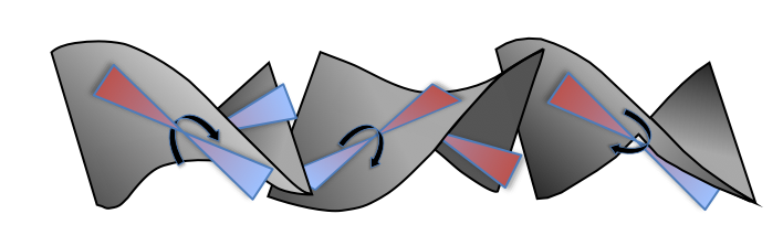 Depiction of radial mixing by a static mixer